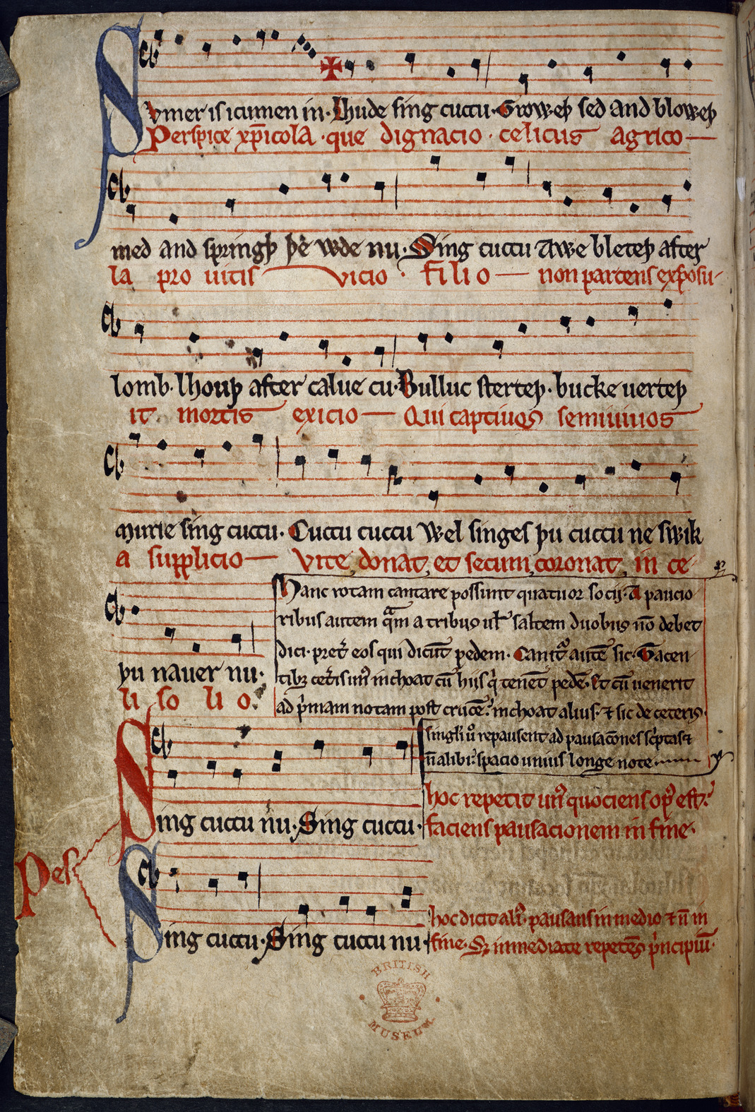 'Sumer is icumen in' [Whole folio] 'Sumer is icumen in', a vocal composition for several voices; it is probably the most celebrated piece of English medieval music. The melody is one of the earliest known examples of what is now the major mode, and the earliest example of ground-bass. Besides the English secular text 'Sumer is icumen in', the melody is provided with a Latin sacred one 'Perspice Christicola', and it is the earliest known manuscript in which both secular and sacred words are written to the same piece of music